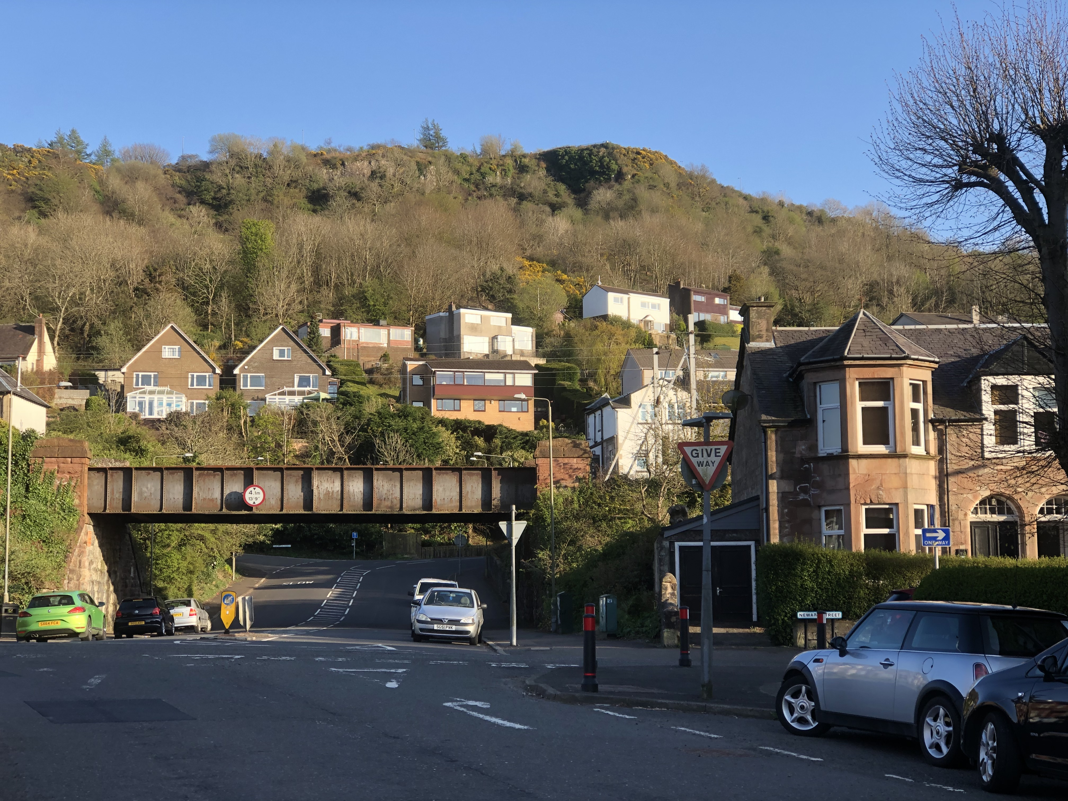 Lyle Hill seen from near the foot of Lyle Road, looking across Newark Street to the railway bridge taking the Inverclyde Line west from Fort Matilda railway station to the Gourock terminus.